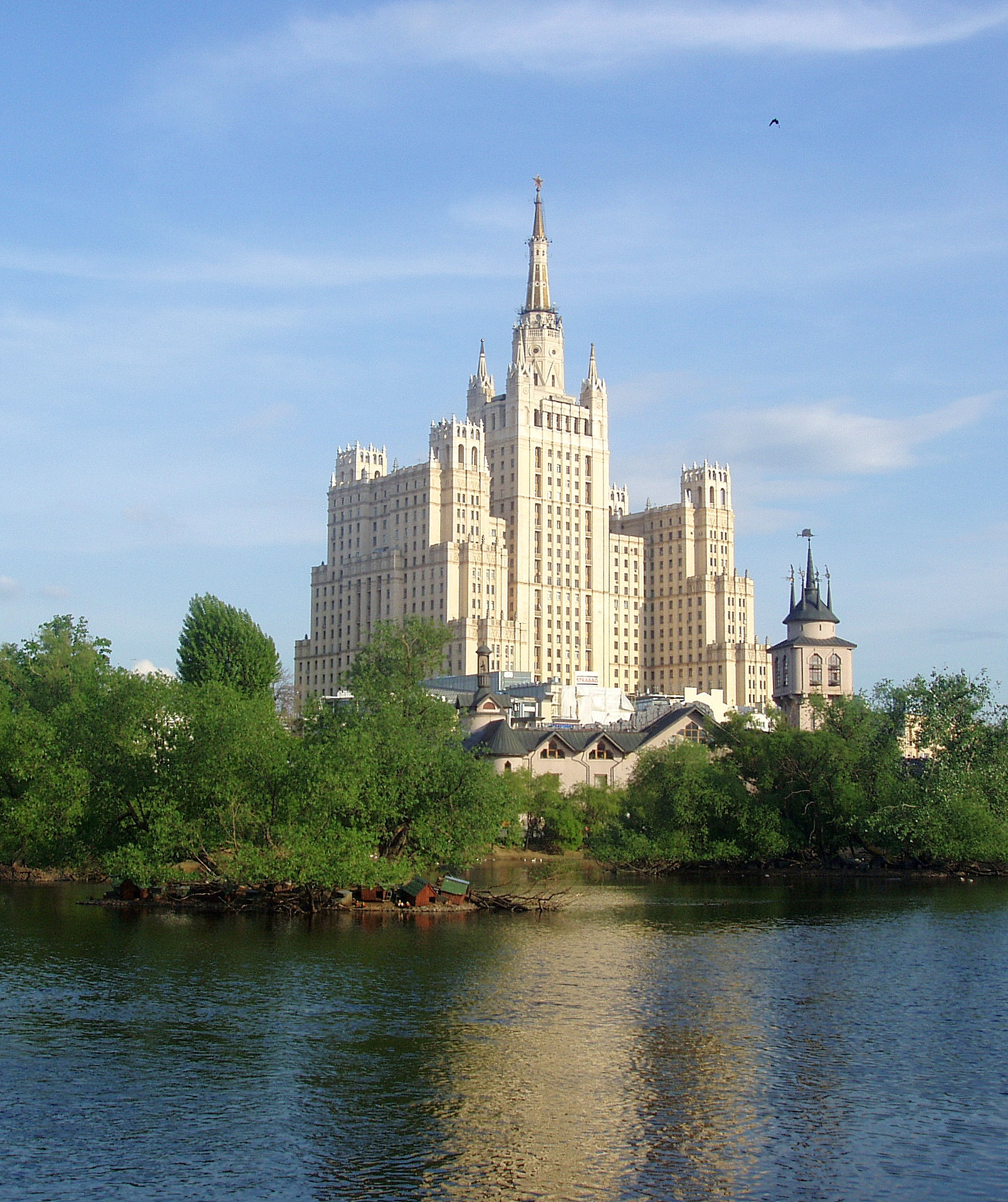 Kudrinskaya Square Building in Moscow. Sight from Noscow Zoo territory.